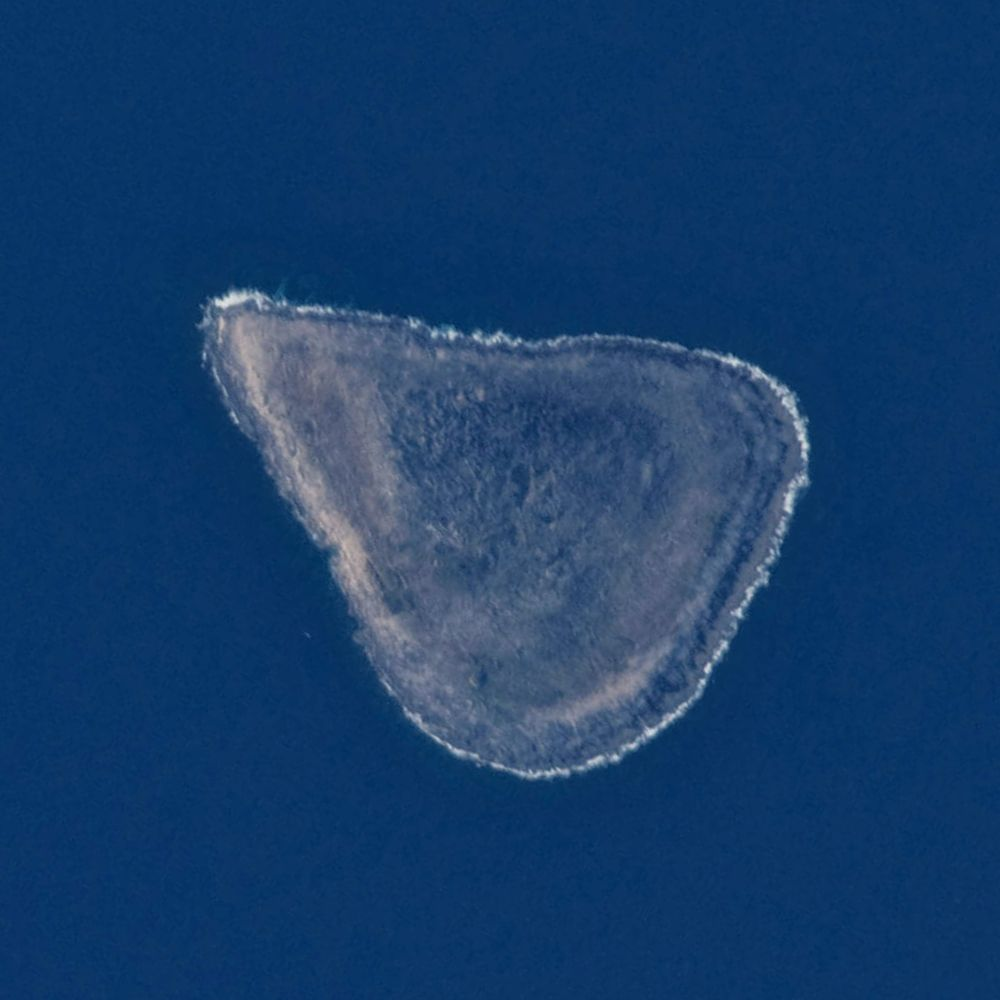 Oki-Daitō Island, Okinawa Prefecture, Japan.